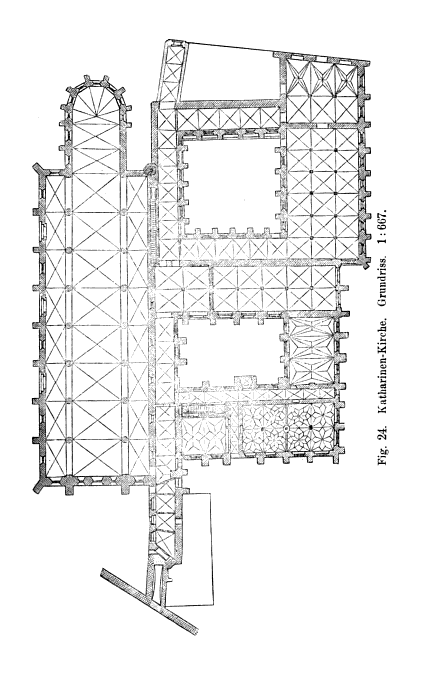 Grouind plan of Katharinenkloster in Stralsund